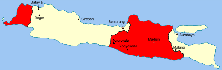 Map of Java showing the Van Mook Line after the Renville Agreeement. Areas in red are those occupied by the Indonesian republic, while those in cream are areas occupied by the Dutch.